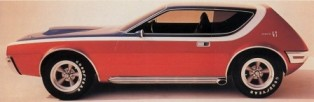 1968 American Motors (AMC) AMX GT show car - This photograph is of the "Second Type" - finished in red with white stripe and dark blue hood and roof; as well as 5-spoke wheels. The first time this concept car was shown at the auto shows, it sported flush wheel covers and was solid red with a white stripe). Scan of AMC Public Relations Department Press Release photo. The image was freely provided to promote an item and was part of the news release for this concept automobile with the intention that it be distributed for "free" by the media to the public.